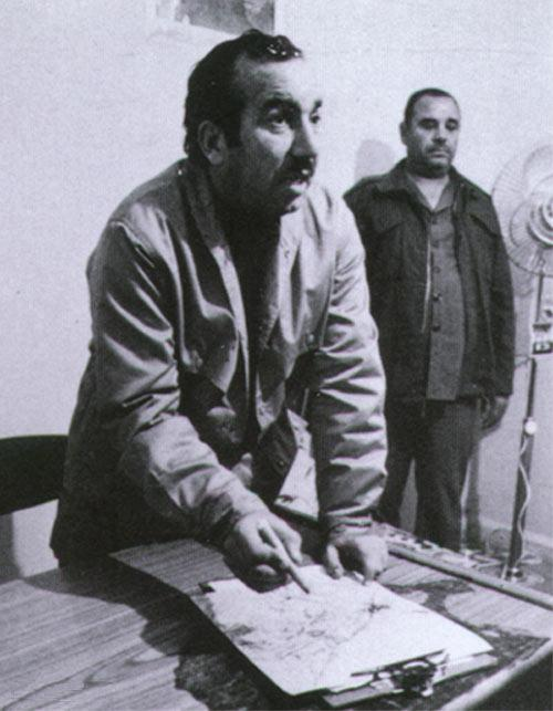 Khalil al-Wazir discussing a military operation Reproduced from with permission (Mahmoud Abu Rumieleh, Webmaster). Free to use with acknowledgment.